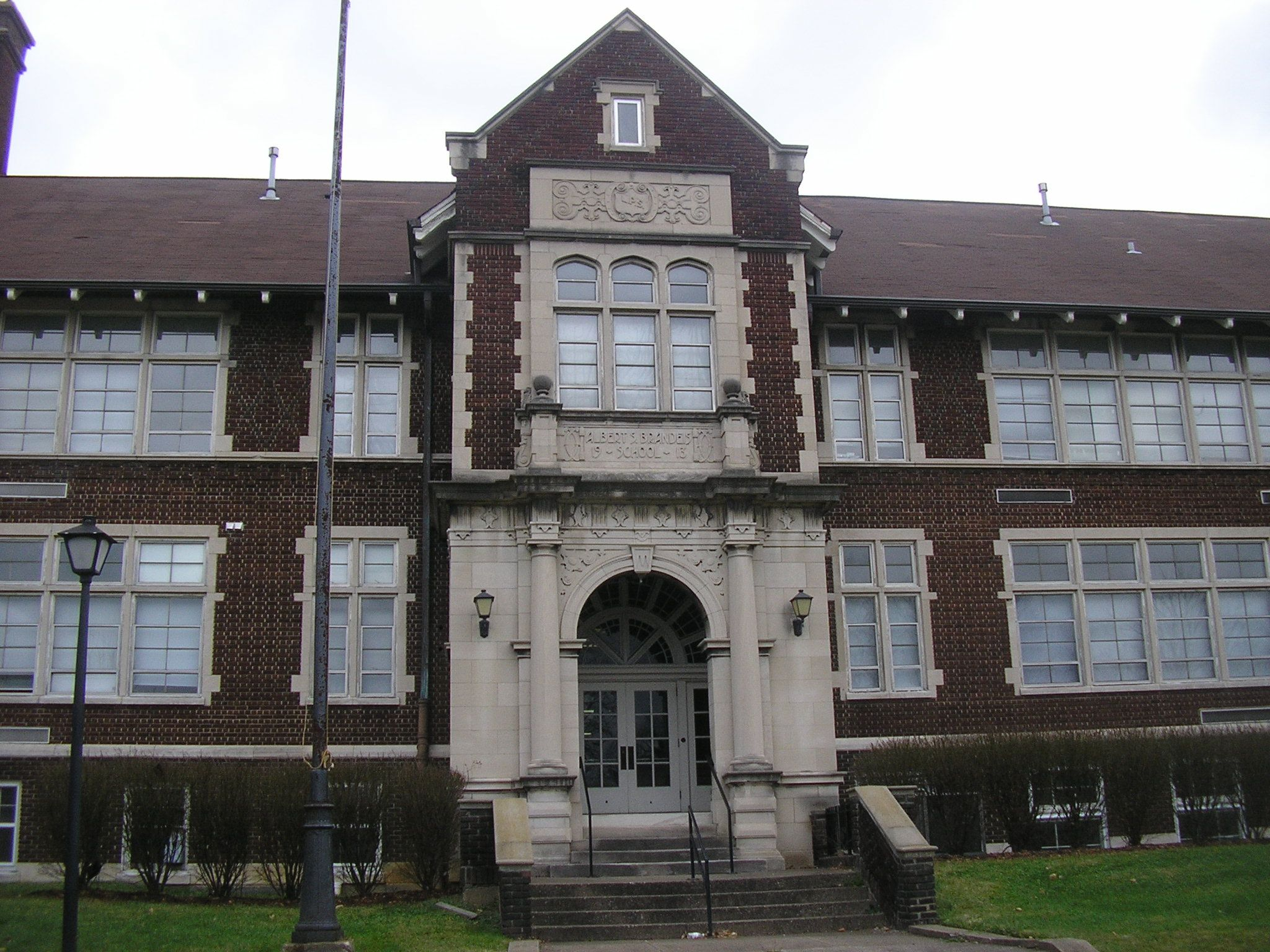 Entry of Albert S. Brandeis Elementary School.